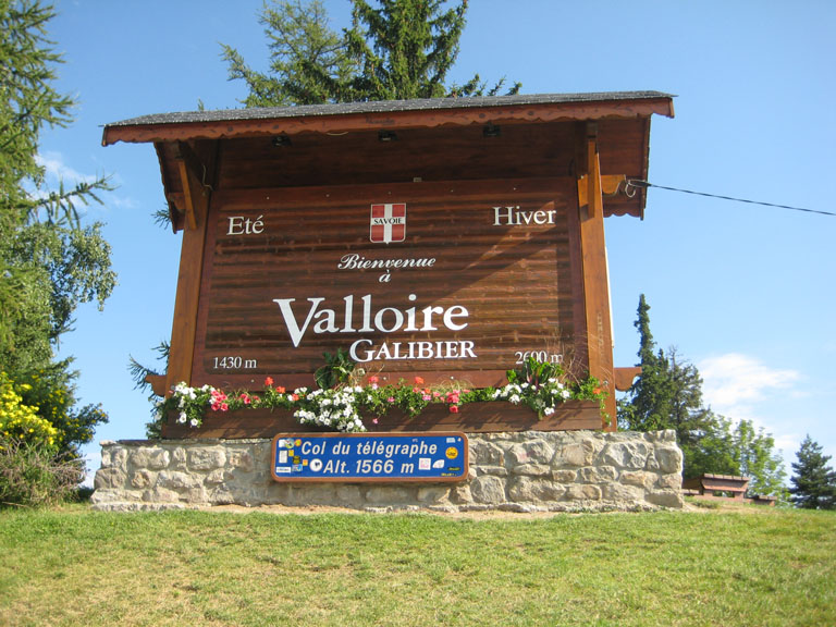 Col_du_Telegraphe